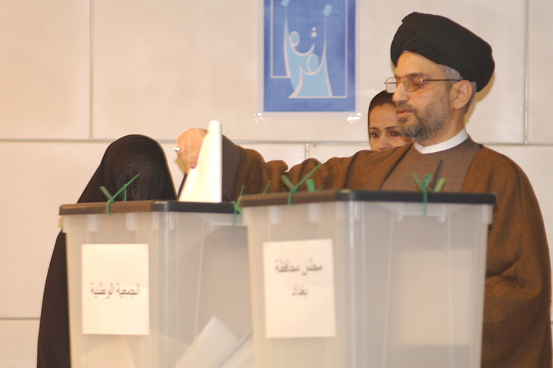 Abdul Aziz al-Hakim, the leader of the Supreme Council for the Islamic Revolution in Iraq party, casts his ballot in Iraq's first free election at a polling station in the Baghdad Convention Center in Baghdad, Iraq, on Jan. 30, 2005. Millions of Iraqis throughout the country are participating in Iraq's first free election in over 50 years. DoD photo by Staff Sgt. Angelique Perez, U.S. Air Force. (Released) 050130-F-3252P-021